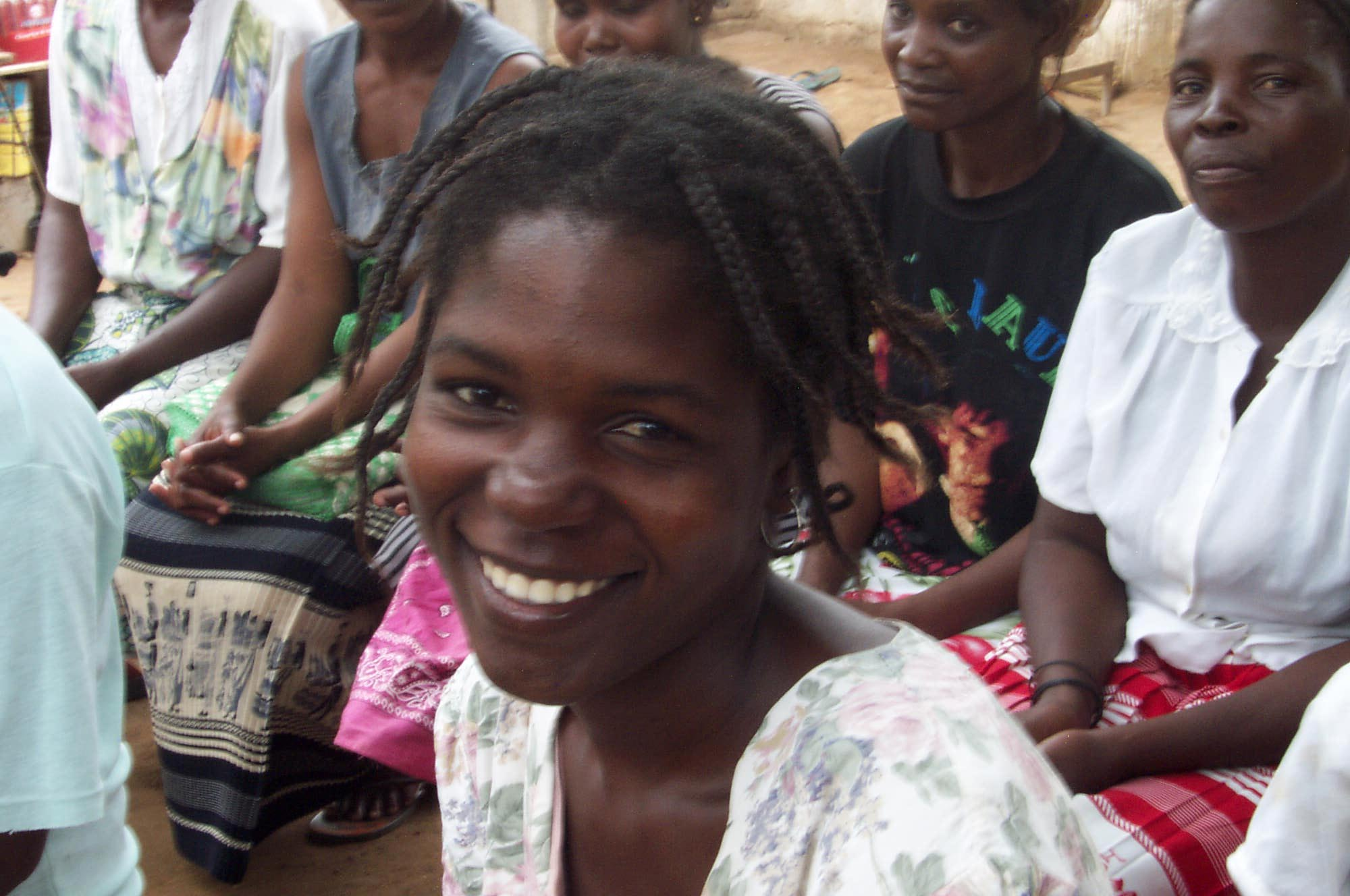 Participants in an adult literacy program in Luanda, Angola